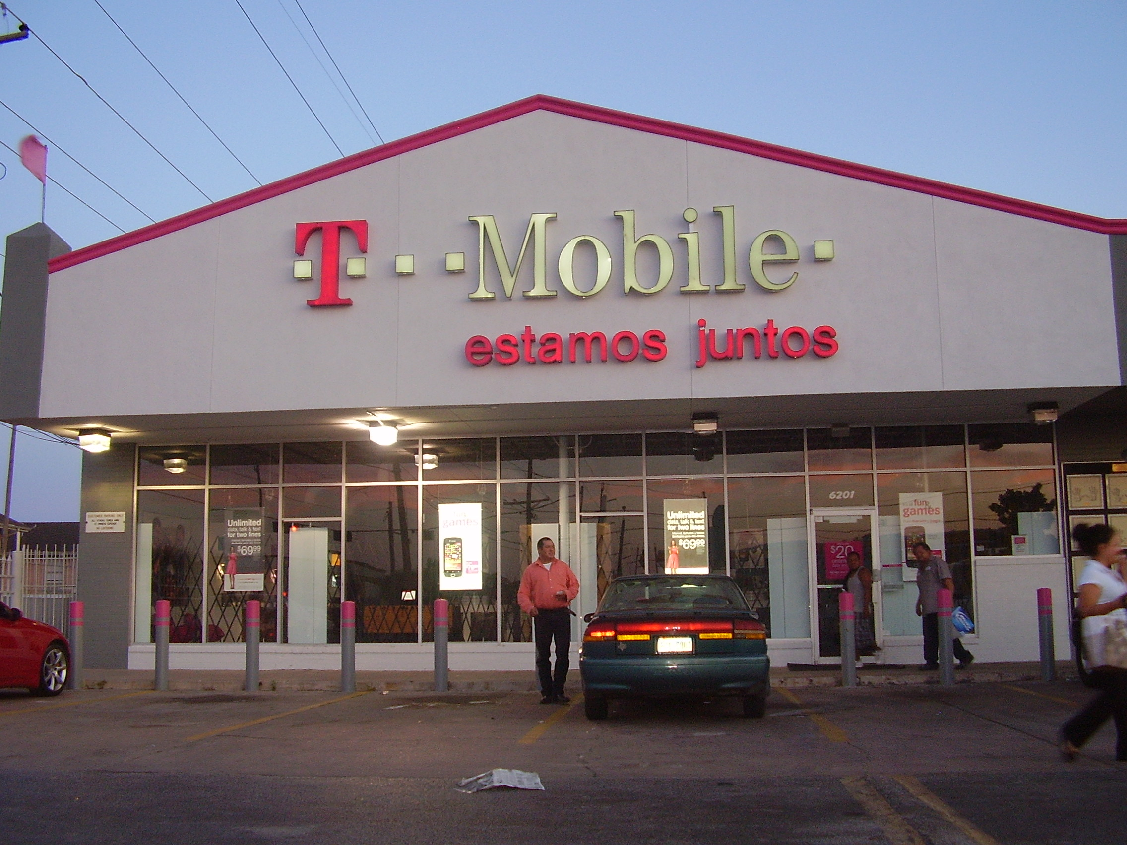 T-Mobile Bellaire & Rampart store in Houston - 6201 BELLAIRE BLVD HOUSTON, TX 77081